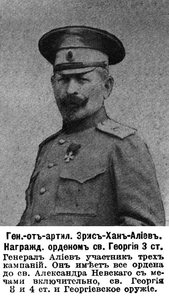 Aliev, Eris Khan Sultan Girey